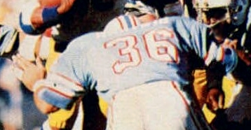 Houston Oilers safety Carter Hartwig in a defensive play against the San Diego Chargers in the 1979 AFC Divisional Playoff Game on December 29, 1979.